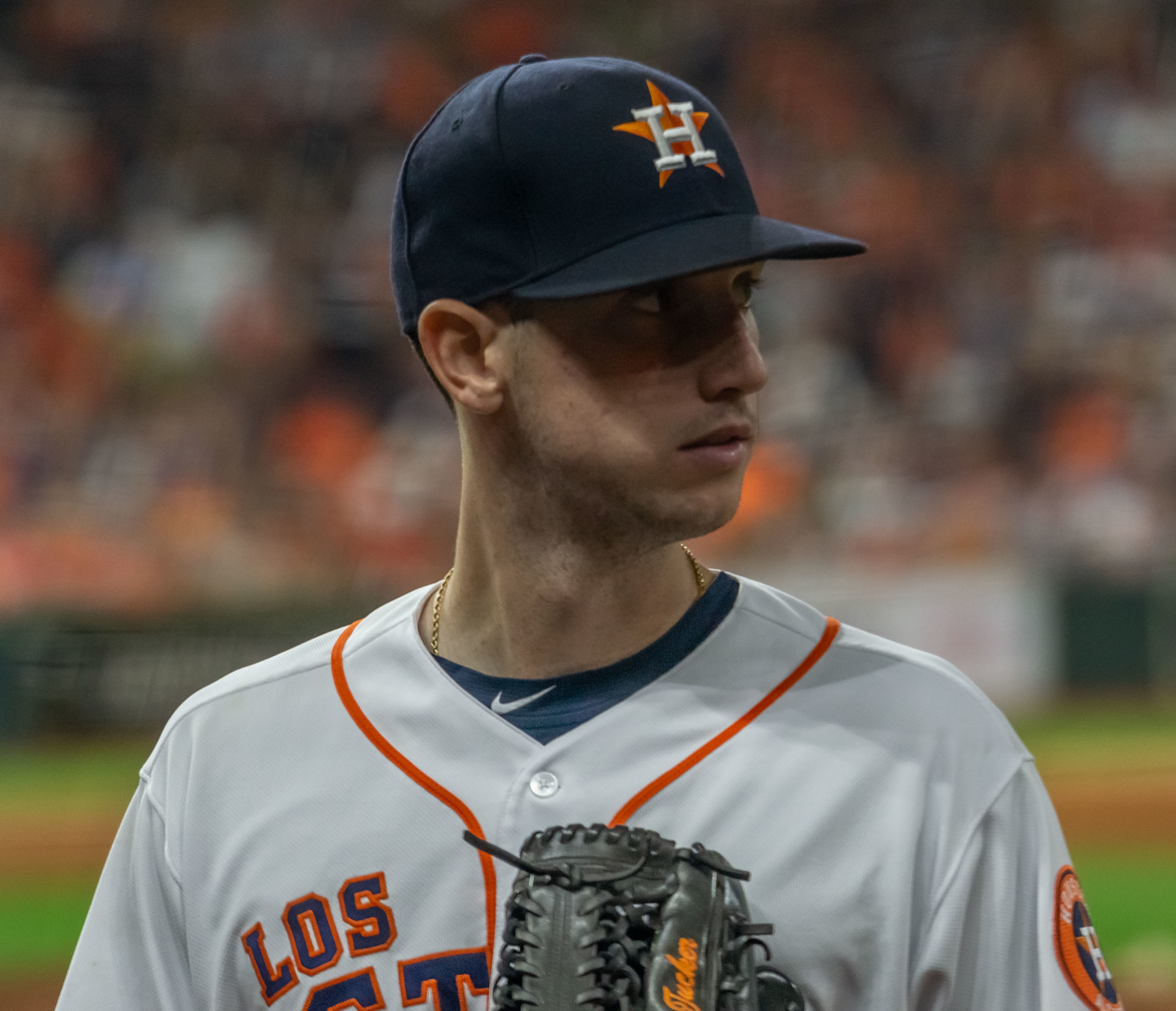 Kyle Tucker with the Houston Astros during a 2019 game at Minute Maid Park in Houston